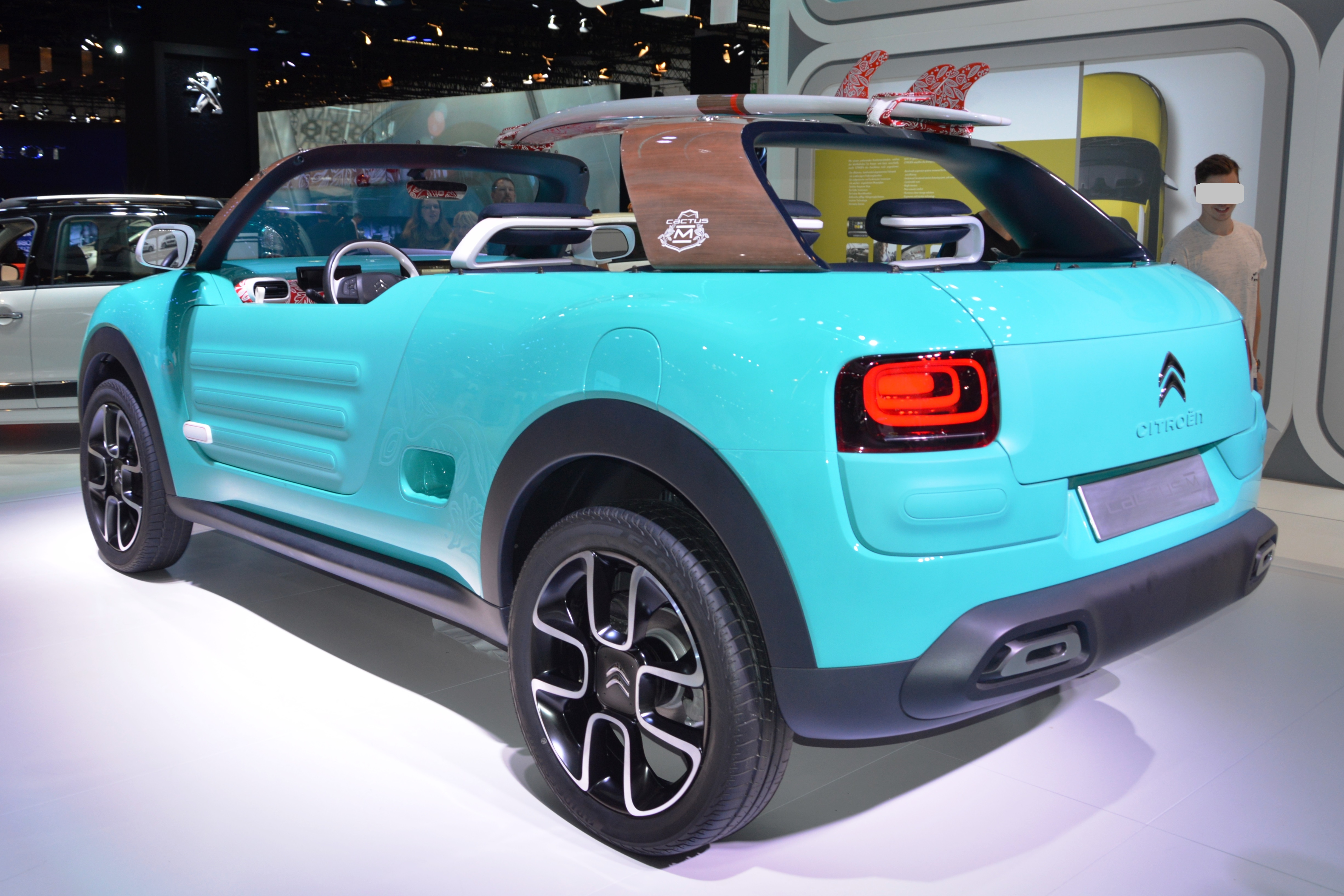 Citroën Cactus M. Photo taken at exhibition IAA 2015 in Frankfurt, Germany.